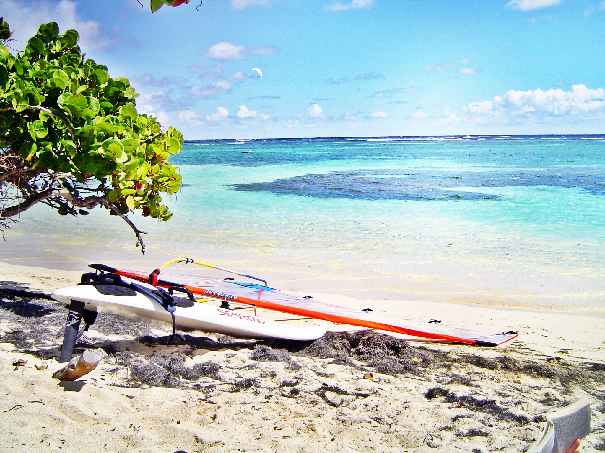 A beach in Martinique